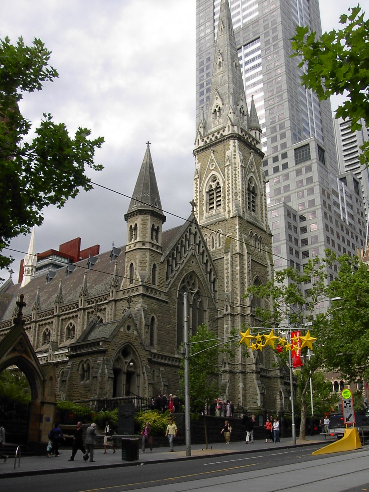 Photo by User:Adam Carr, December 2005. Scots' Church, Melbourne, Victoria, Australia.